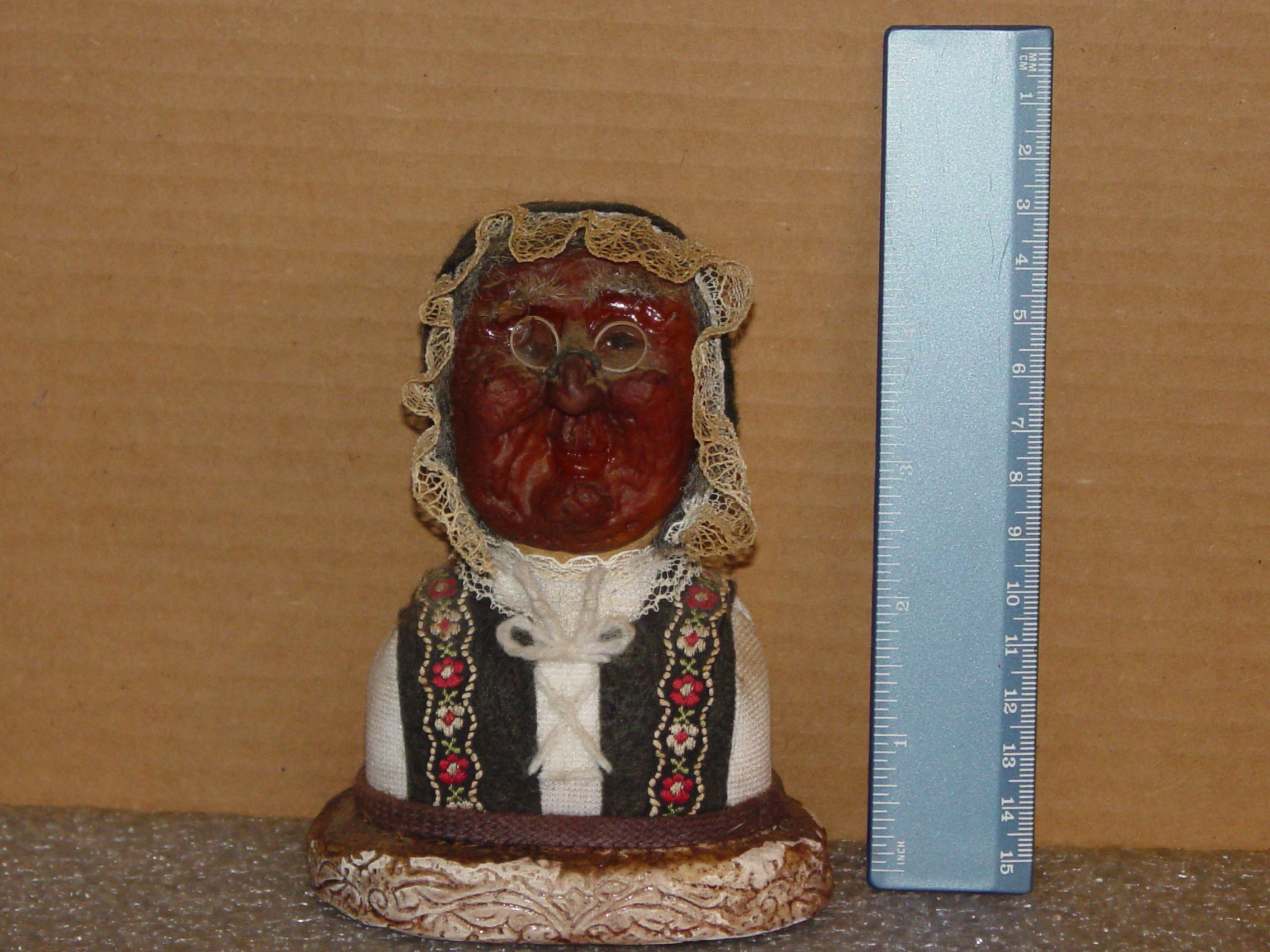 Apple Doll With Measurement Ruler.